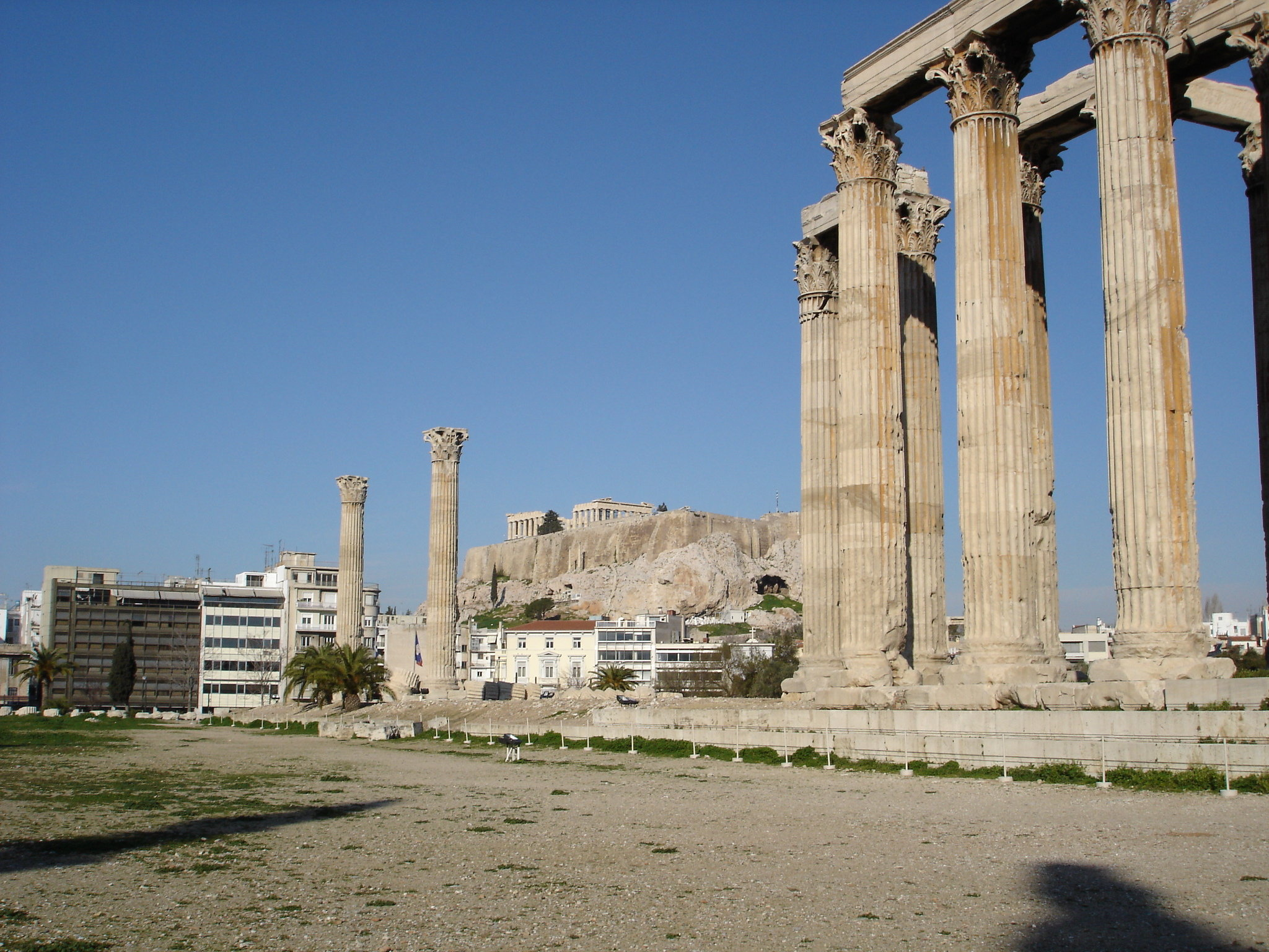 Olympieion, Temple of the Olympic Zeus in Athens, Acropolis in the background